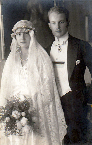 Prince Ludwig Philipp of Thurn and Taxis with his wife Princess Elisabeth of Luxemburg